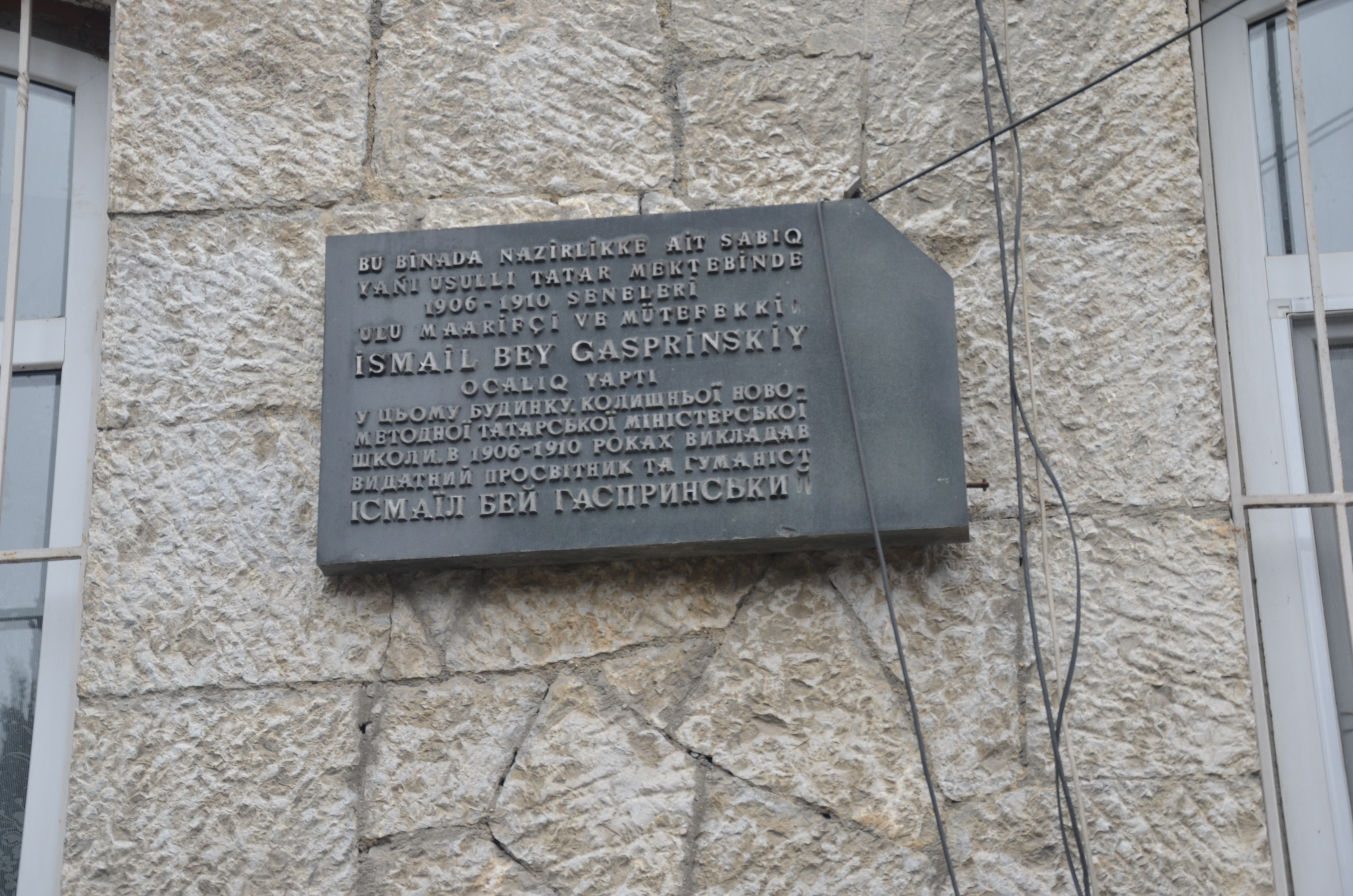 Mosque in Yalta